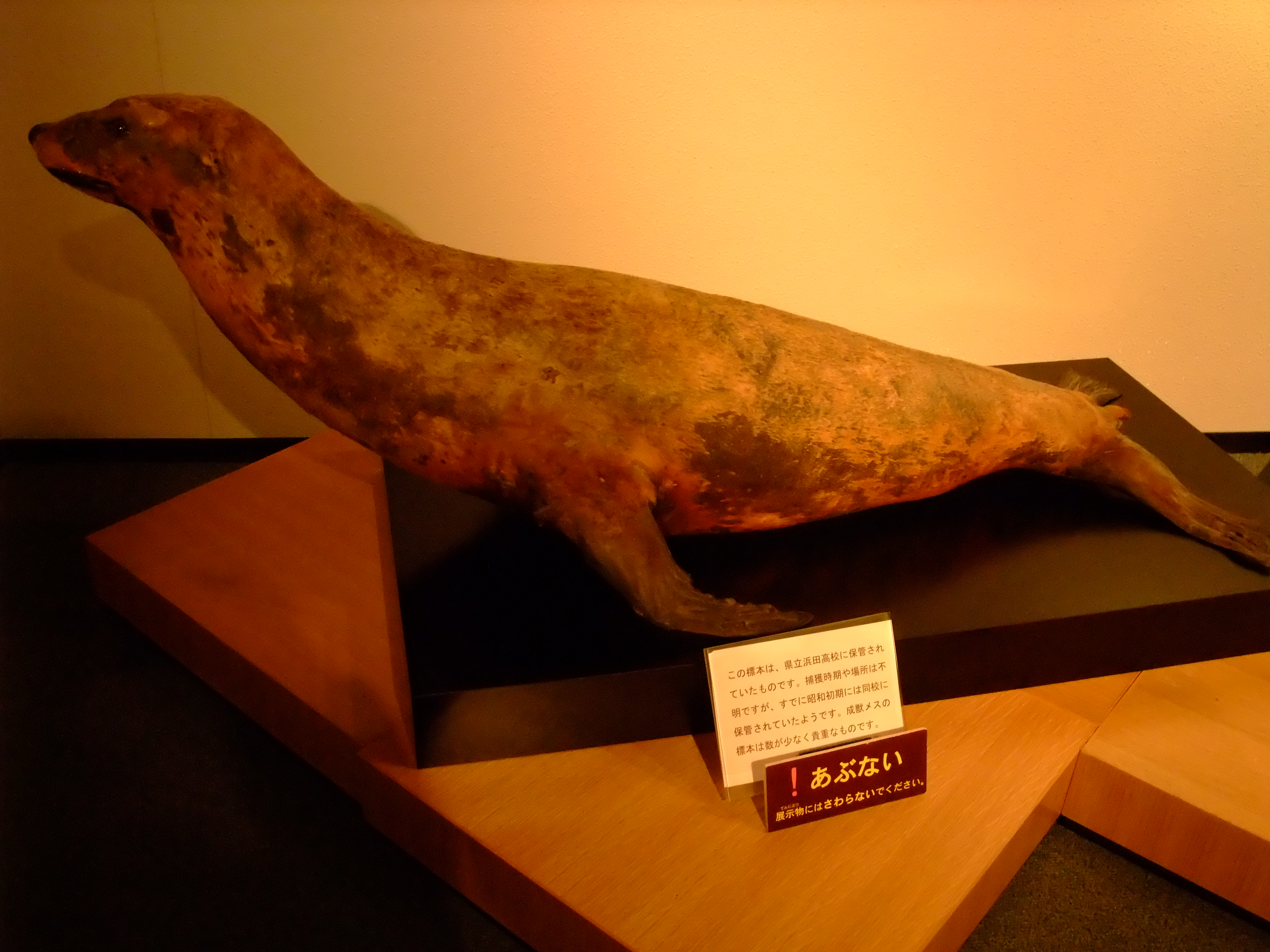 Zalophus japonicus